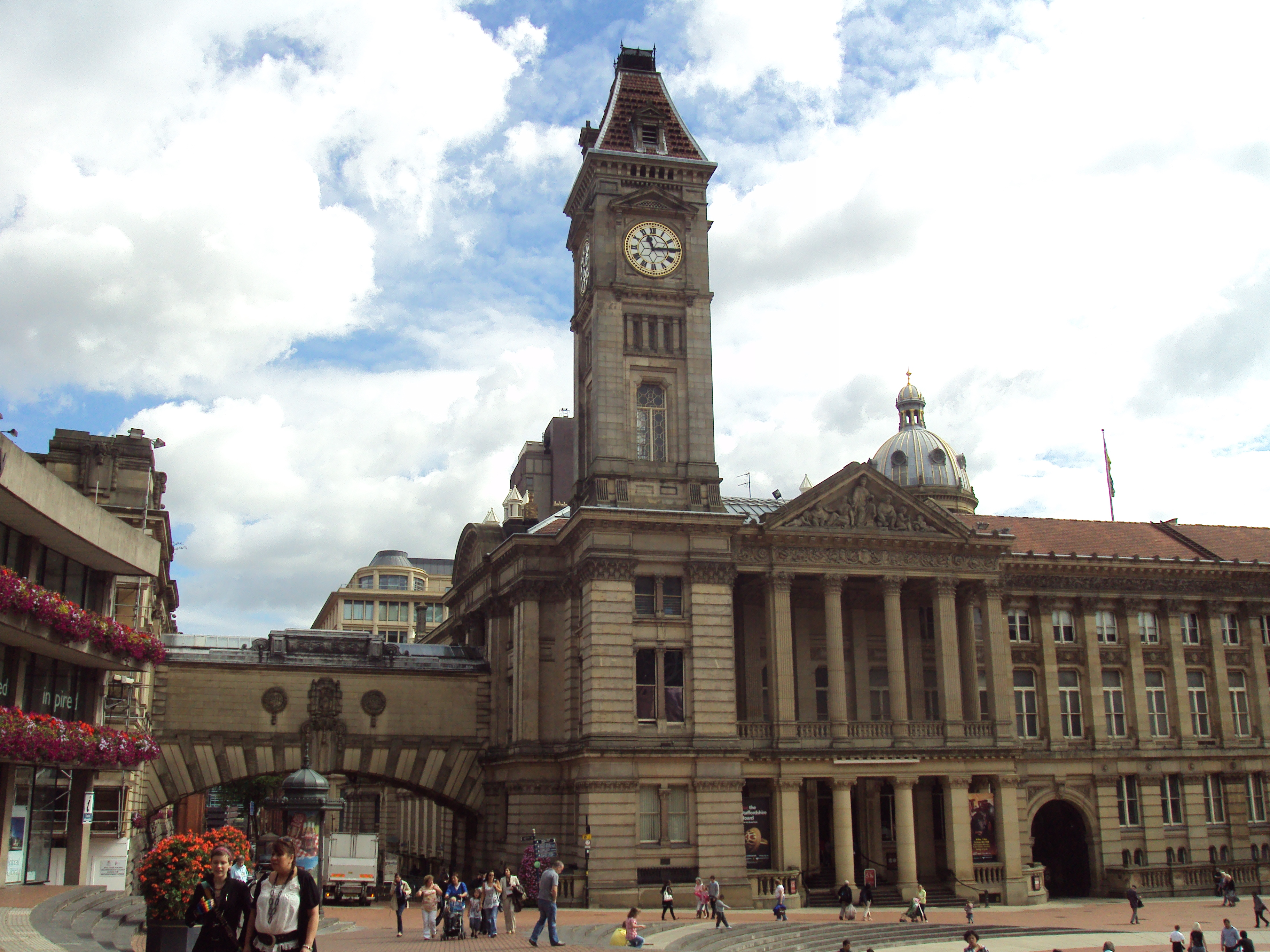 Big Brum clock tower at Birmingham Museum and Art Gallery, Council House, Birmingham, England.